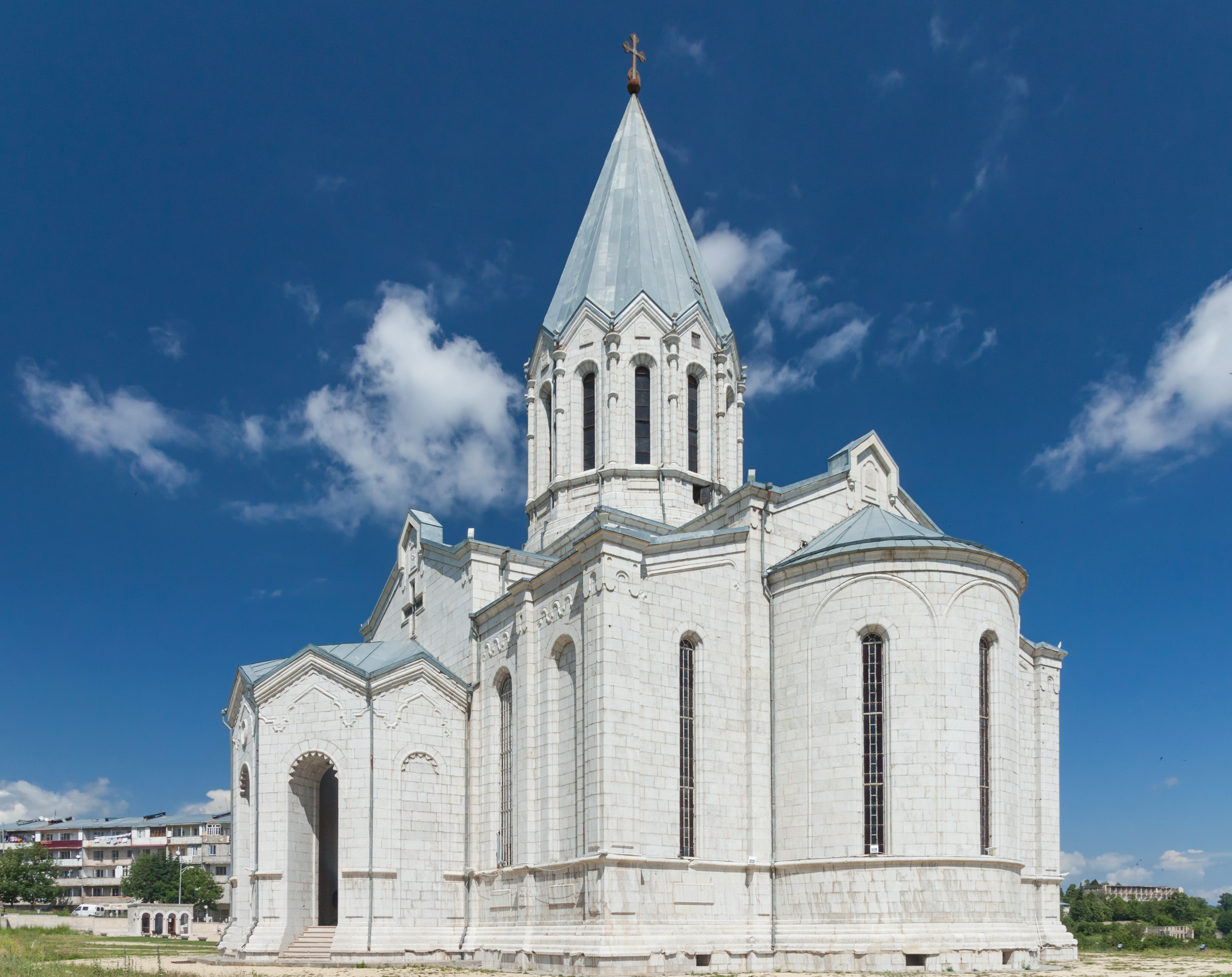 Cathedral of Christ the Holy Savior. Shushi/Shusha, Nagorno-Karabakh.